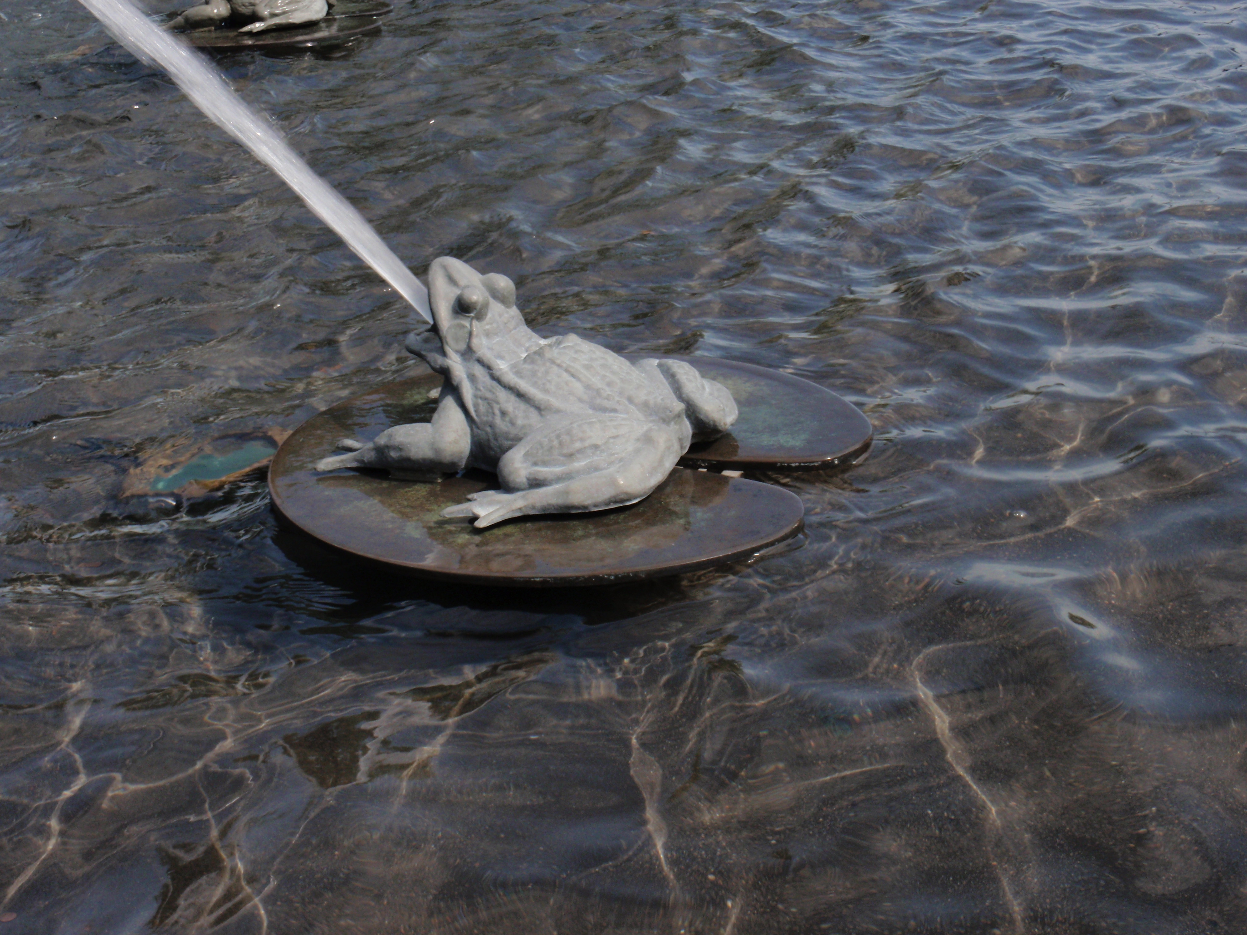 Fontaine de Tourny in Quebec City